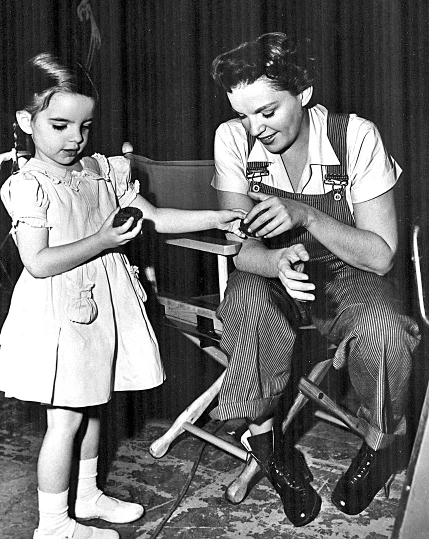 Candid photo of young Liza Minnelli and actress-mother Judy Garland on set of film Summer Stock (1950).